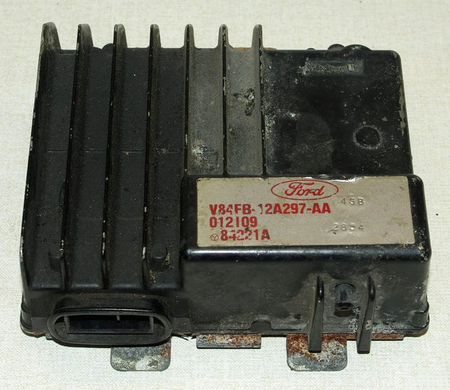 Ford ESC-2 ecu